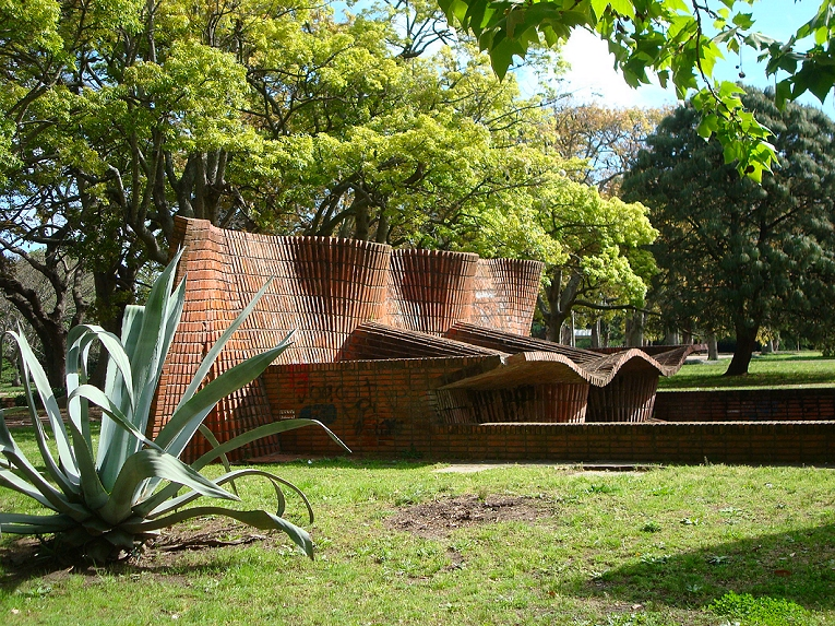 Parque Gabriel Terra, Carrasco, Montevideo.